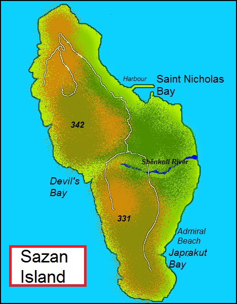 Sazan Island map in english